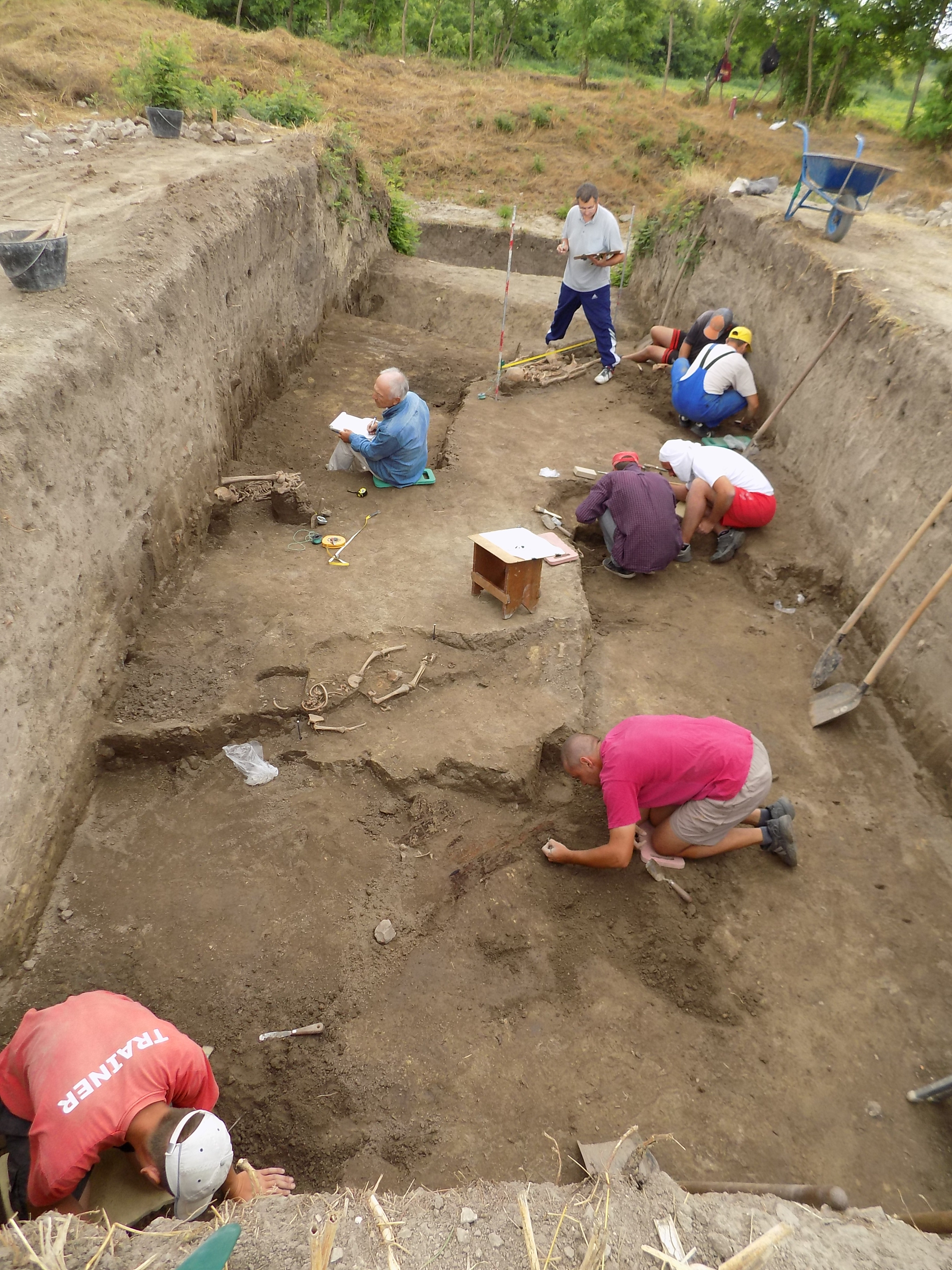 Works during the research of the archaeological location Šuvakov salaš-Klisa, 2015